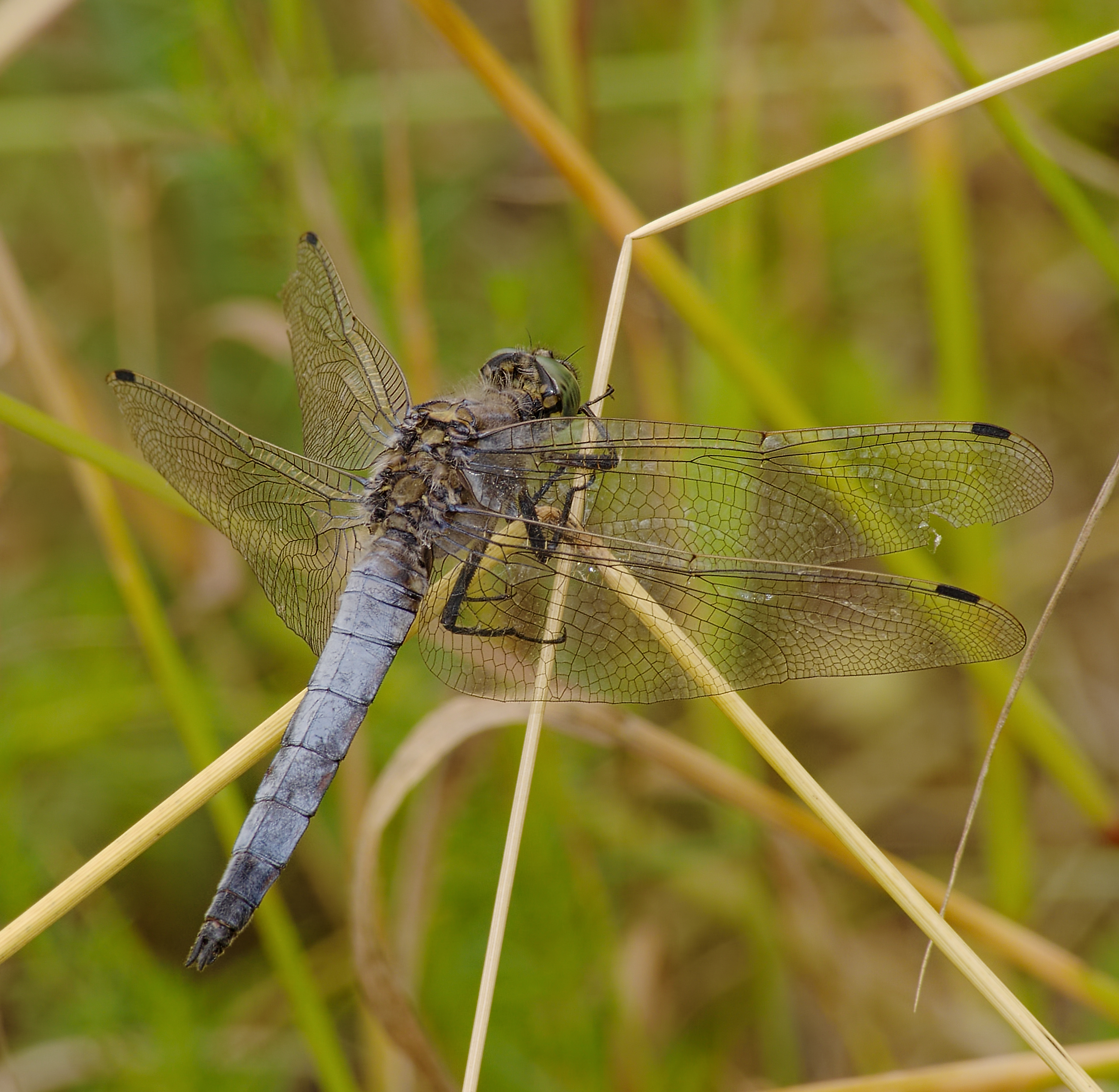 Black-tailed skimmer - Orthetrum cancellatum, male. Taken in Zwochau, Saxony, Germany.